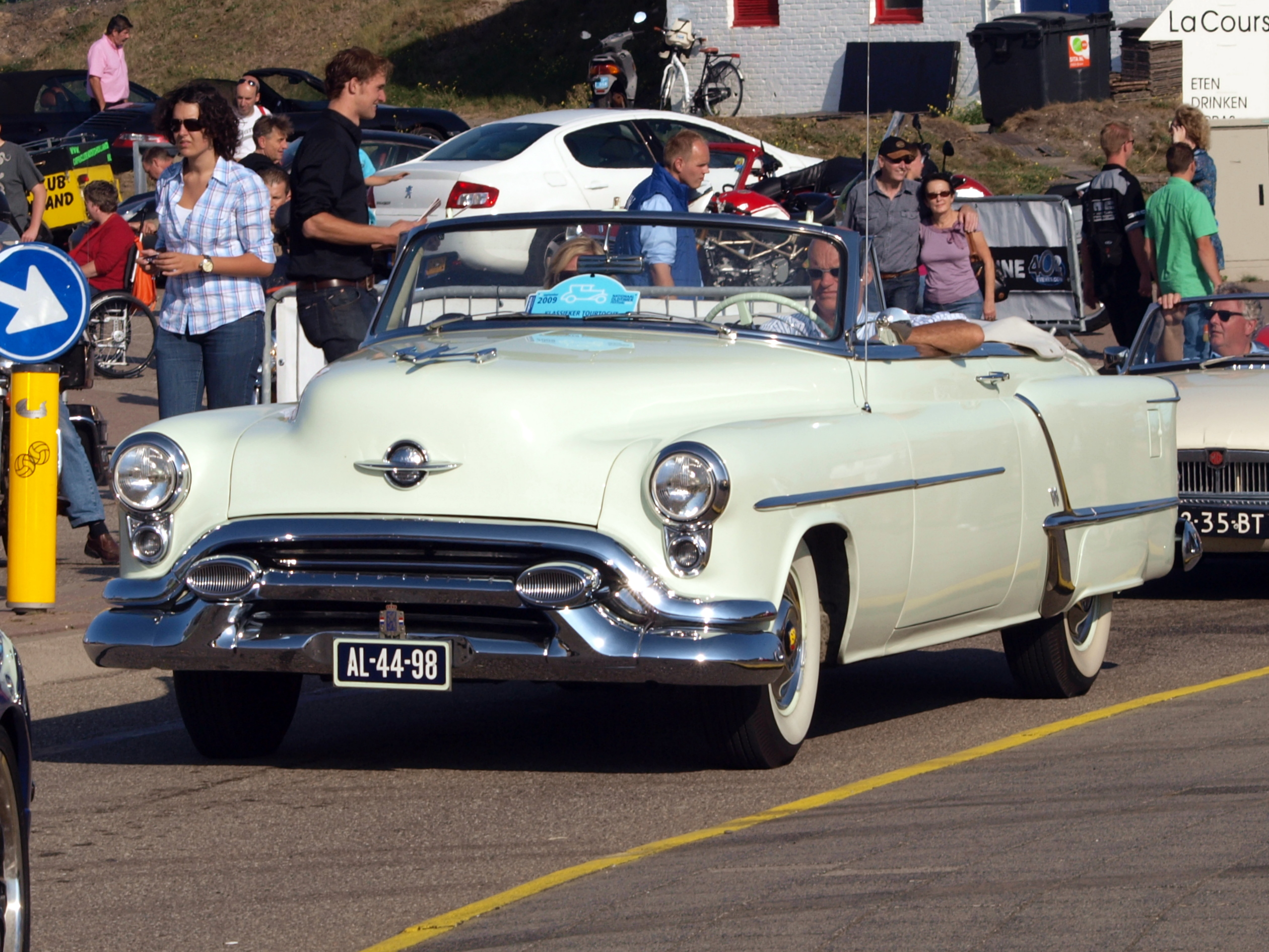 Photographed at the Nationaal Oldtimer Festival Zandvoort 2009, The Netherlands. OLYMPUS DIGITAL CAMERA